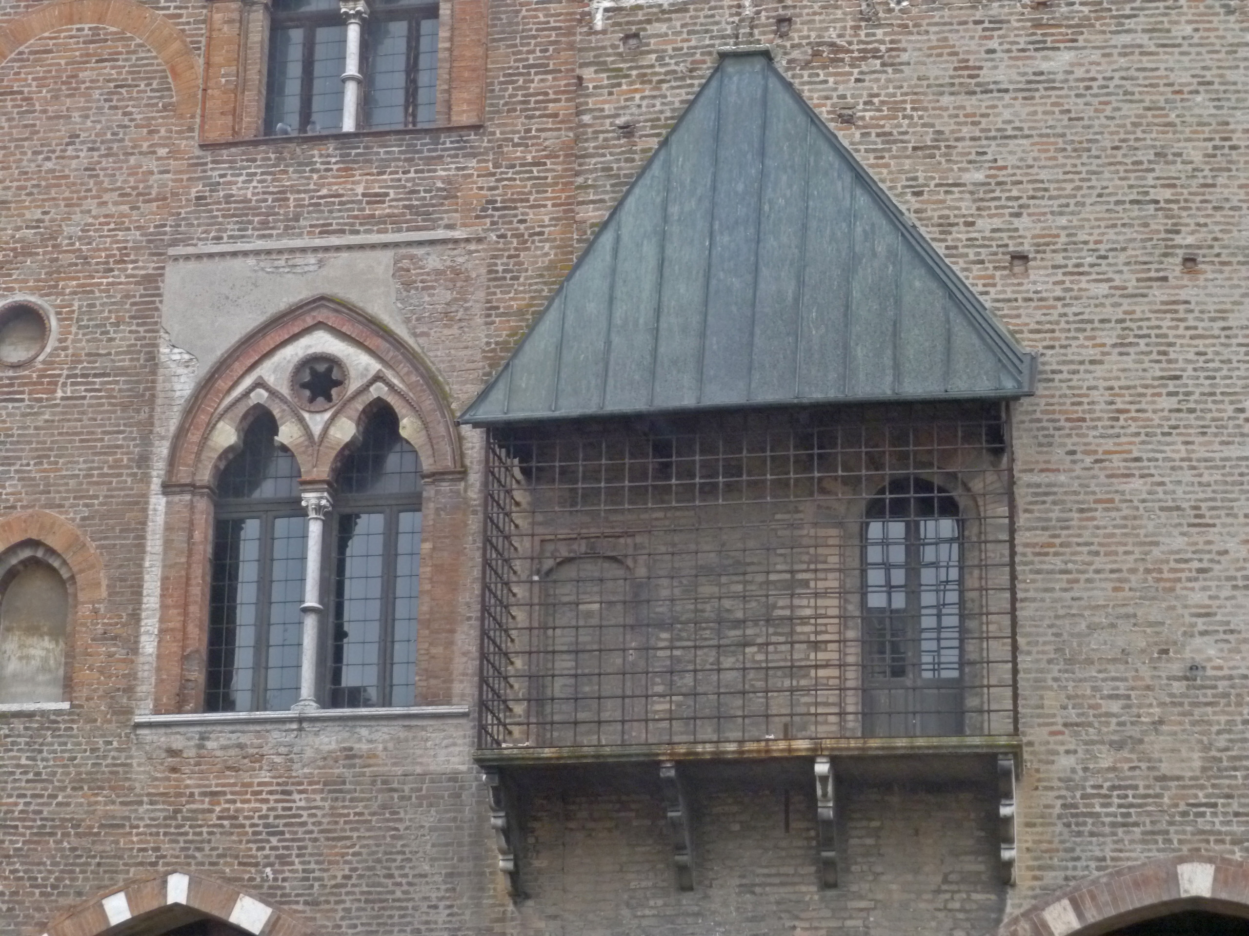 Ducal palace, Mantua, Italy